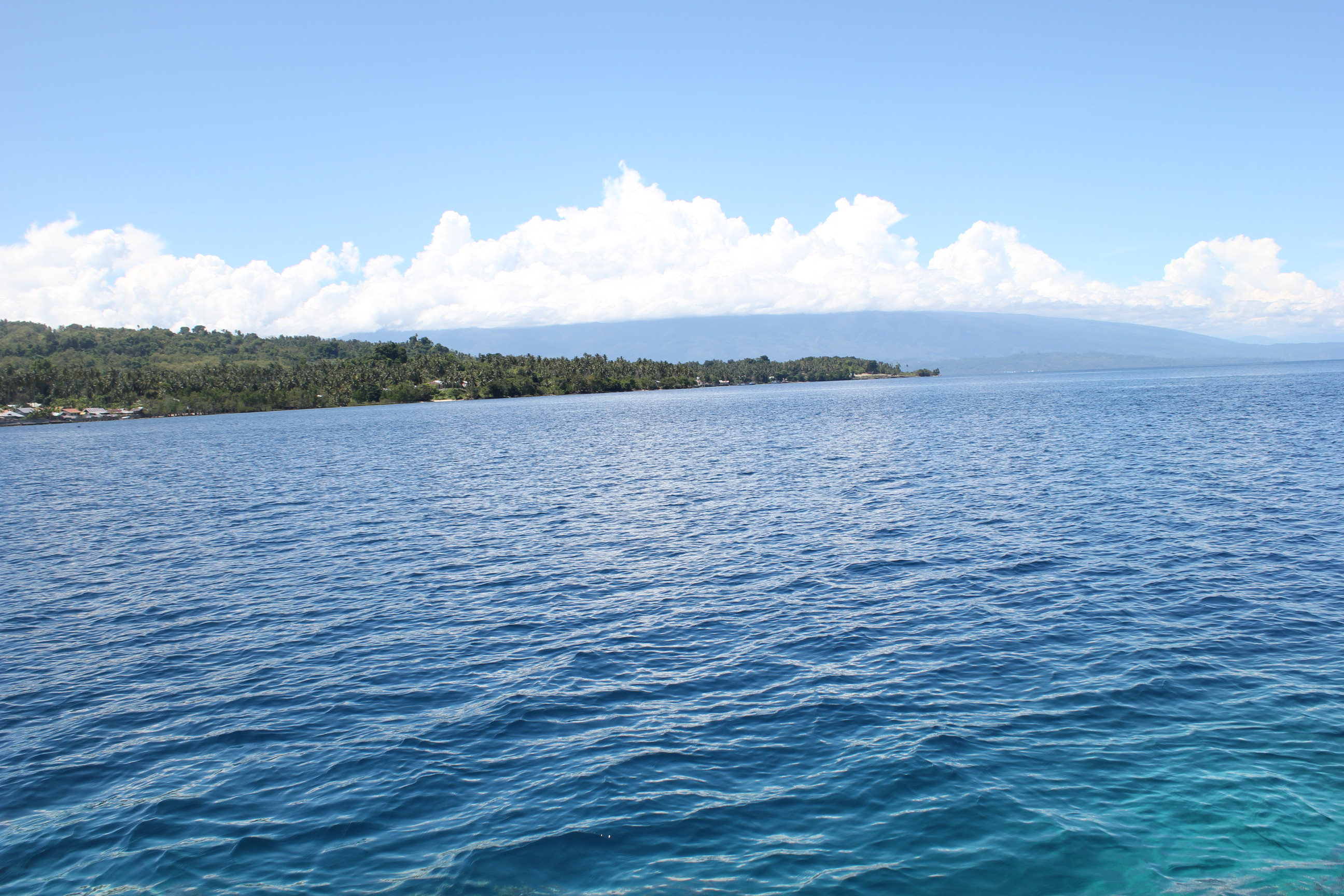 Madale Beach is located in Poso City, Central Sulawesi, Indonesia.